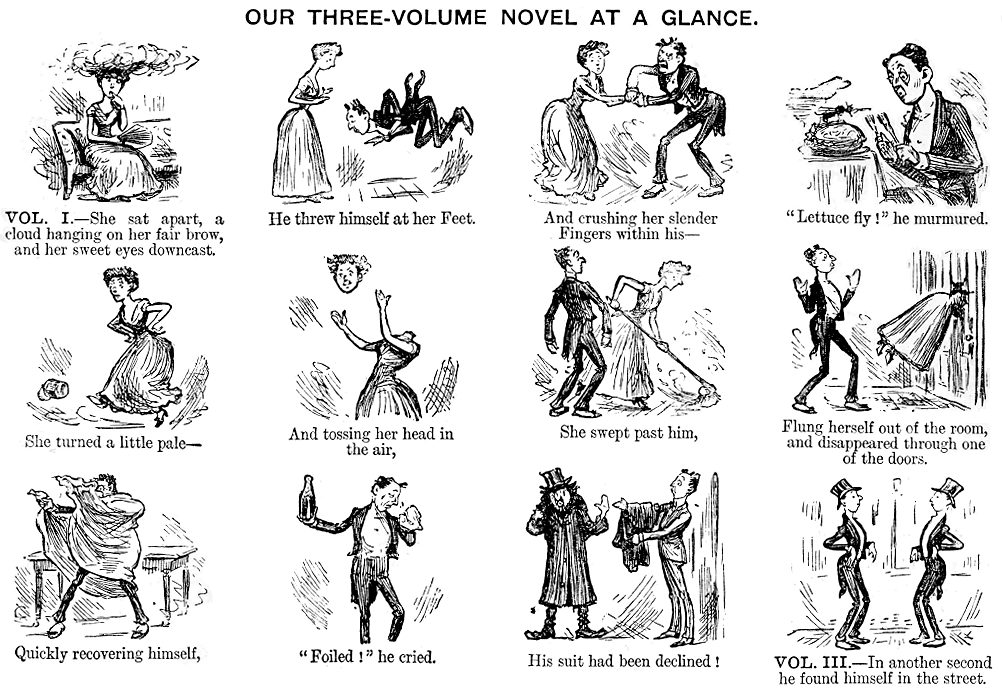 "Our Three-Volume Novel at a Glance", a cartoon by Priestman Atkinson, from the Punch Almanack for 1885 (which would have been published in late 1884). This is a jocular look at some clichéd expressions which were overused in the popular literature of the time. It contains absurd literalistic interpretations of a number of conventional metaphors, accompanied by some outrageous visual puns. In the nineteenth century, popular novels often appeared in three-volume editions when first published, in order to allow three customers of commercial "circulating libraries" to be reading parts of the book simultaneously. I've abridged the second and third "volumes" of the cartoon in this scan. For the whole original cartoon, with full versions of "volumes" II and III, or